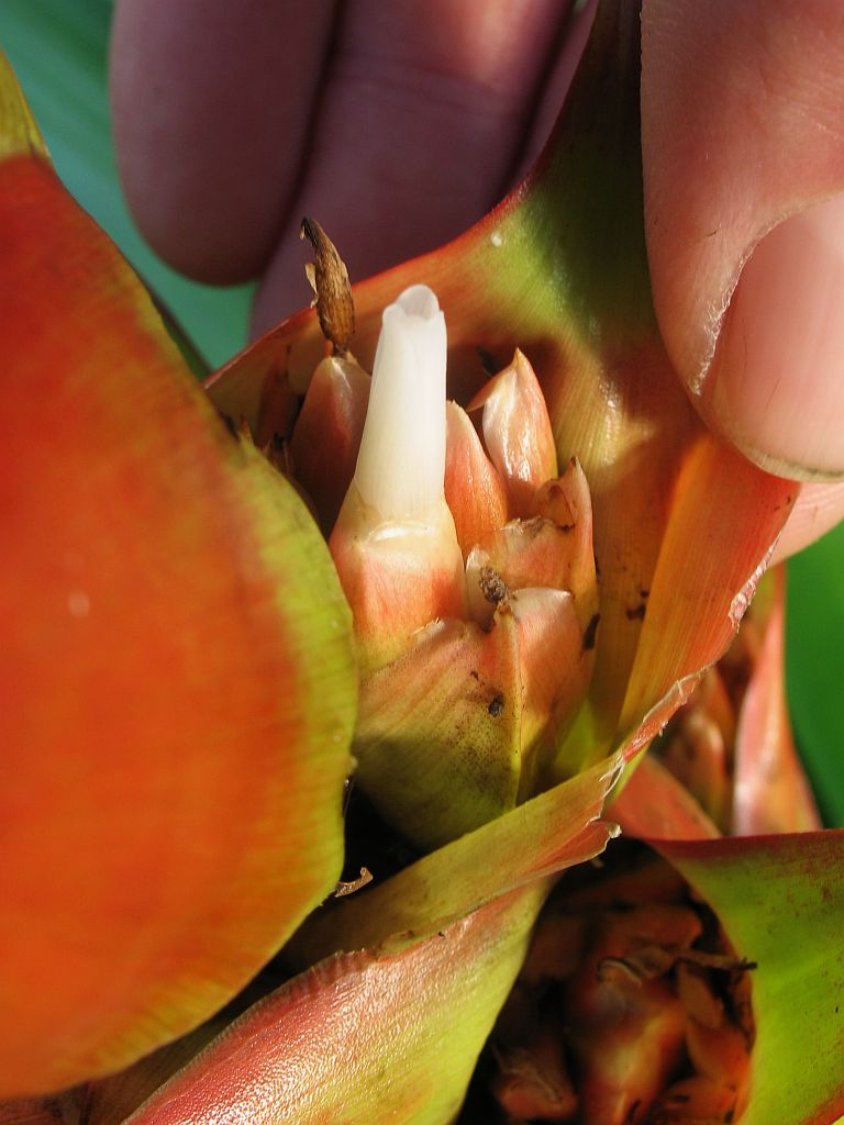 Mezobromelia capituligera in cultivation at the Botanical Garden of Heidelberg, Germany.